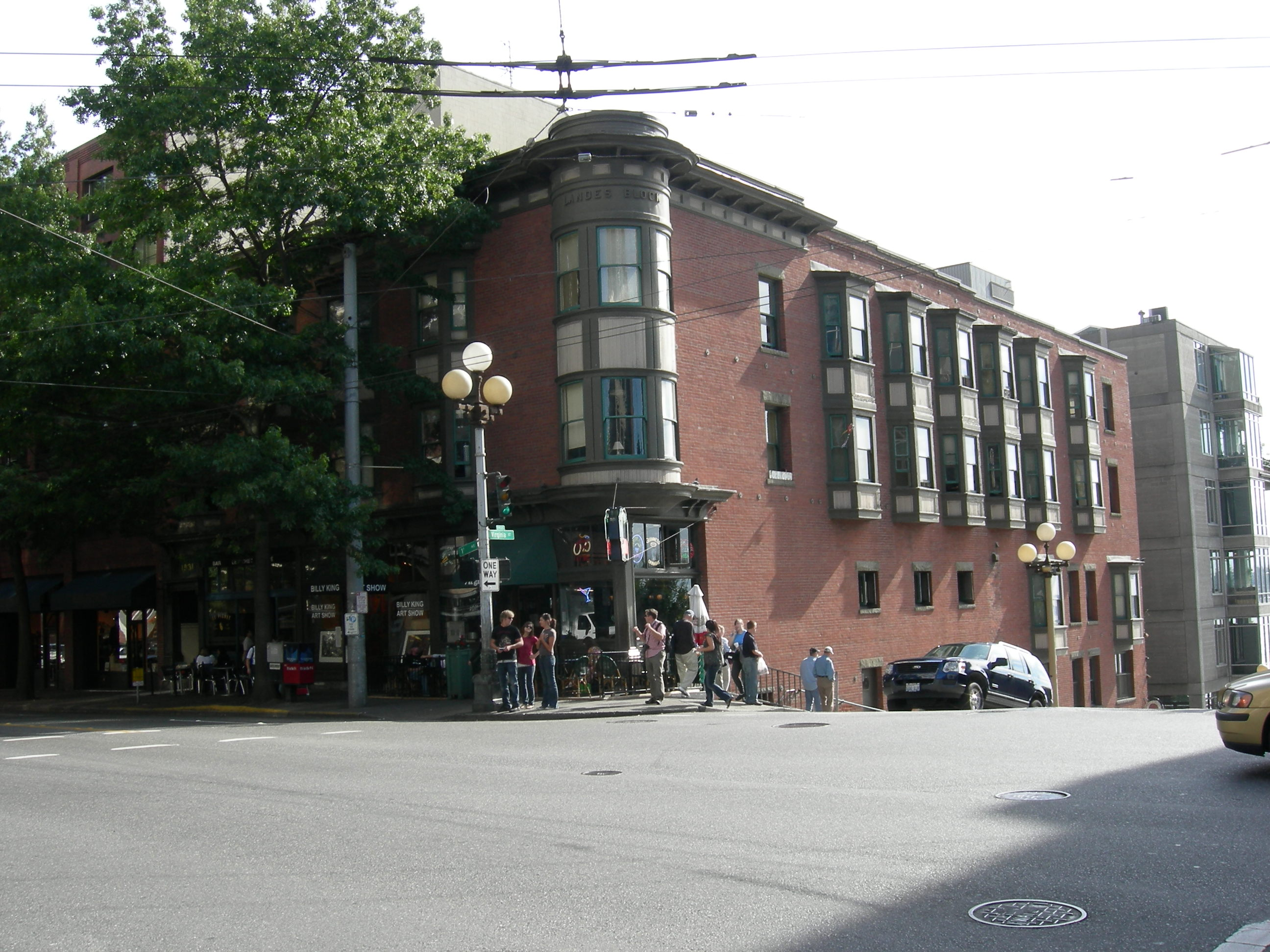 Landes Block (also known as the Hotel Livingston or the Livingston-Baker Apartments), including the corner bar Virginia Inn, corner of First and Virginia in the Pike Place Market District, Seattle, Washington. Built 1901, major rehabilitation 1977.